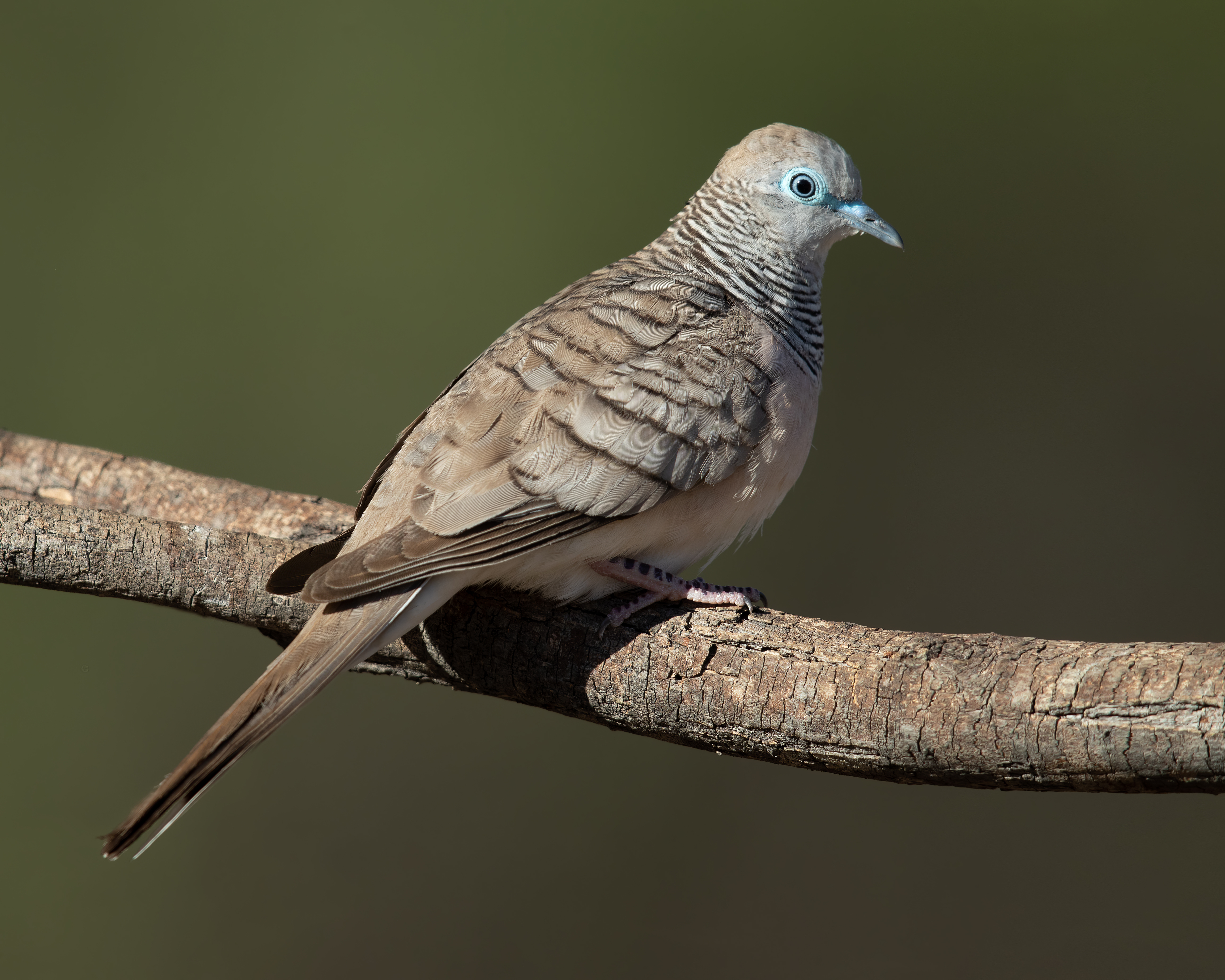 Peaceful Dove (Geopelia placida), Glen Alice, Lithgow, New South Wales, Australia